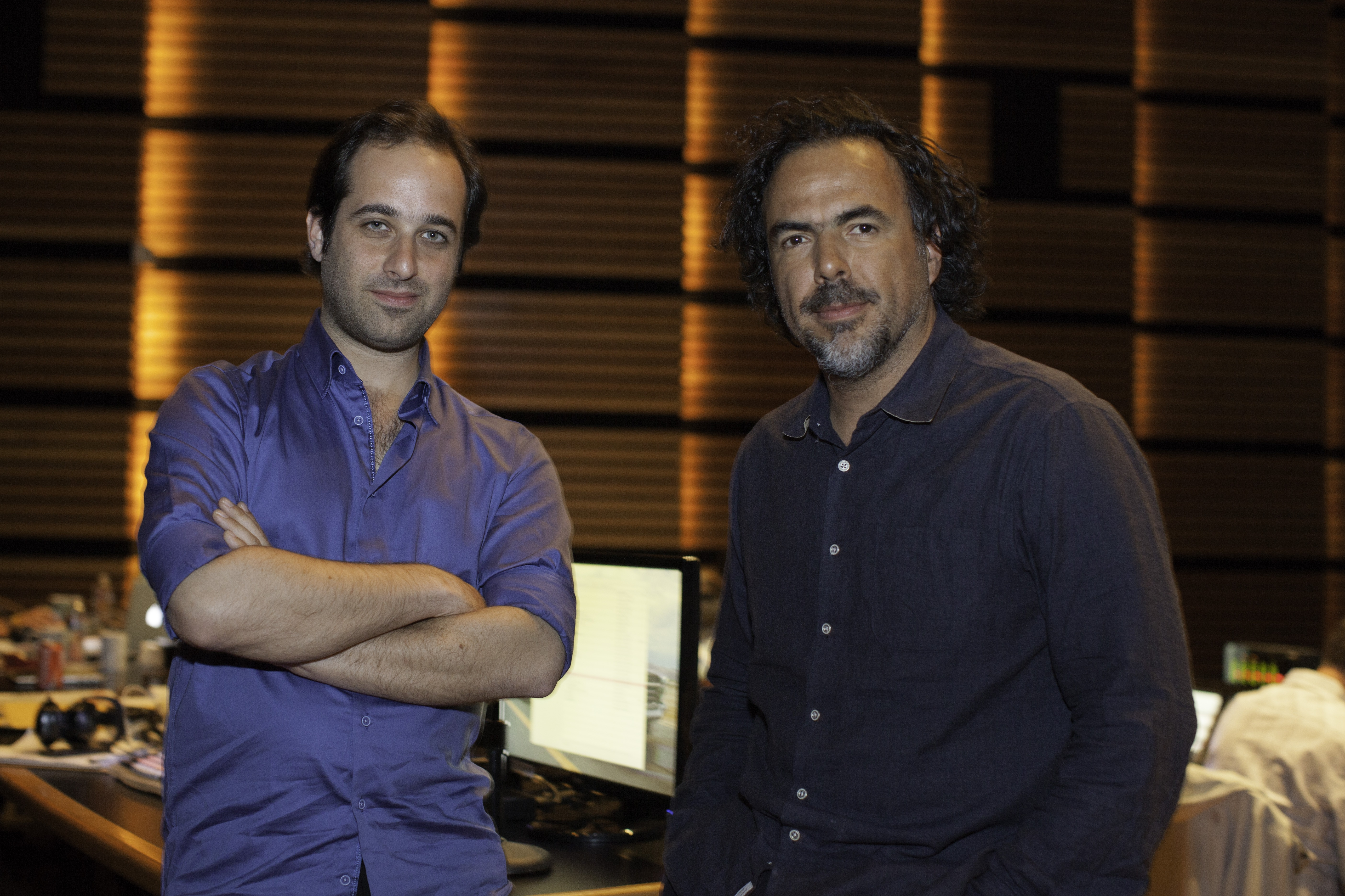 Alejandro G. Iñárritu, mentor and Tom Shoval, protégé (left). Los Angeles, US, 2014